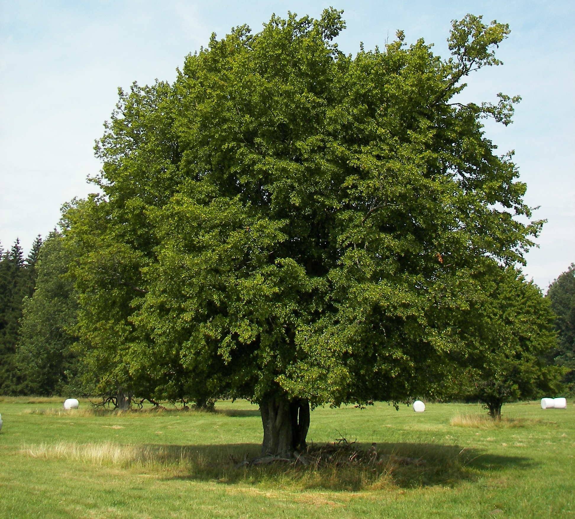 European or common hornbeam (Carpinus betulus), Location: Glashütter Wiesen in the Hunsrück, Rhineland-Palatinate, Germany